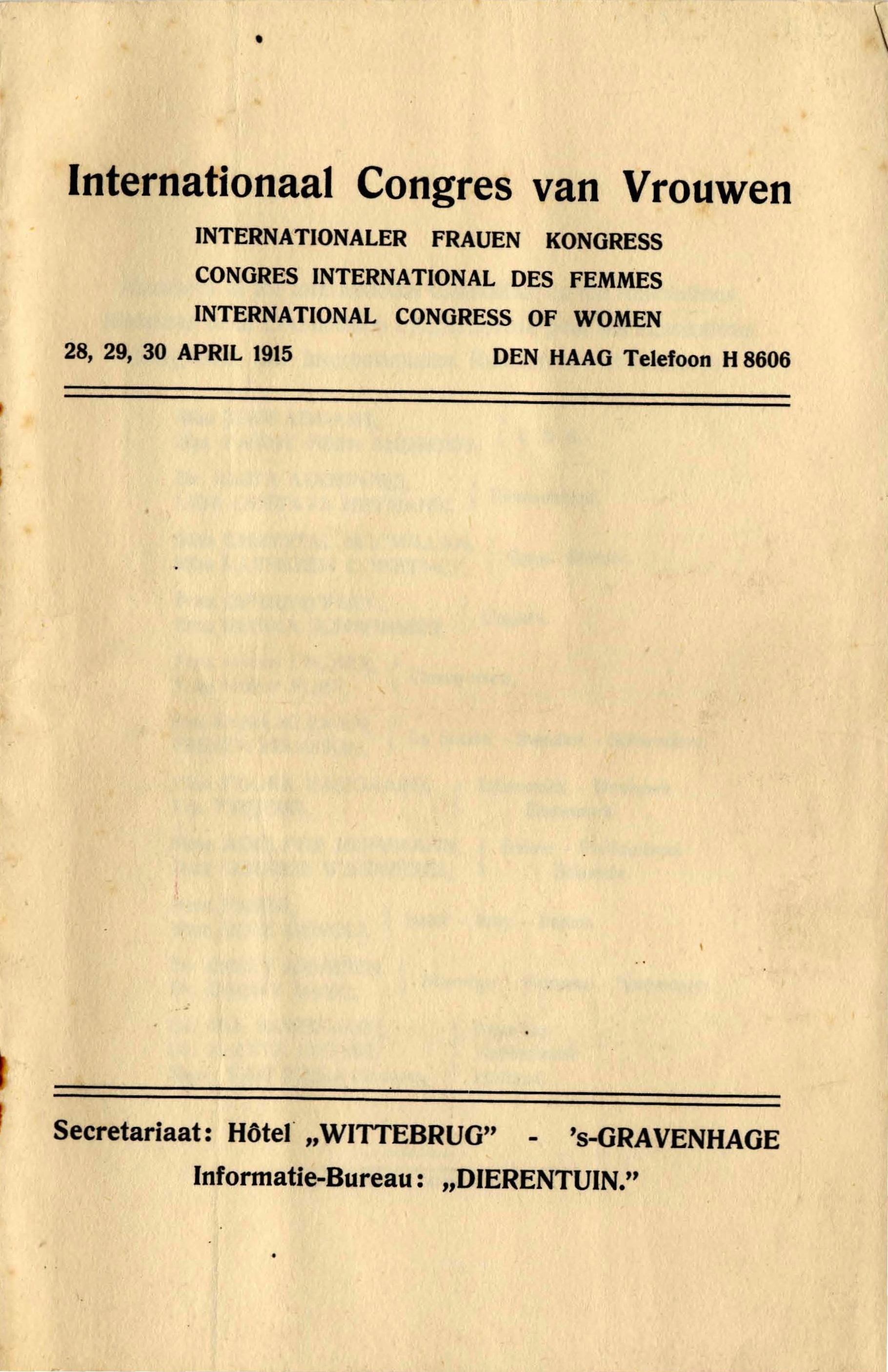 Front page of participant's programme/listing för International Congress of Women in The Hague, April 1915.